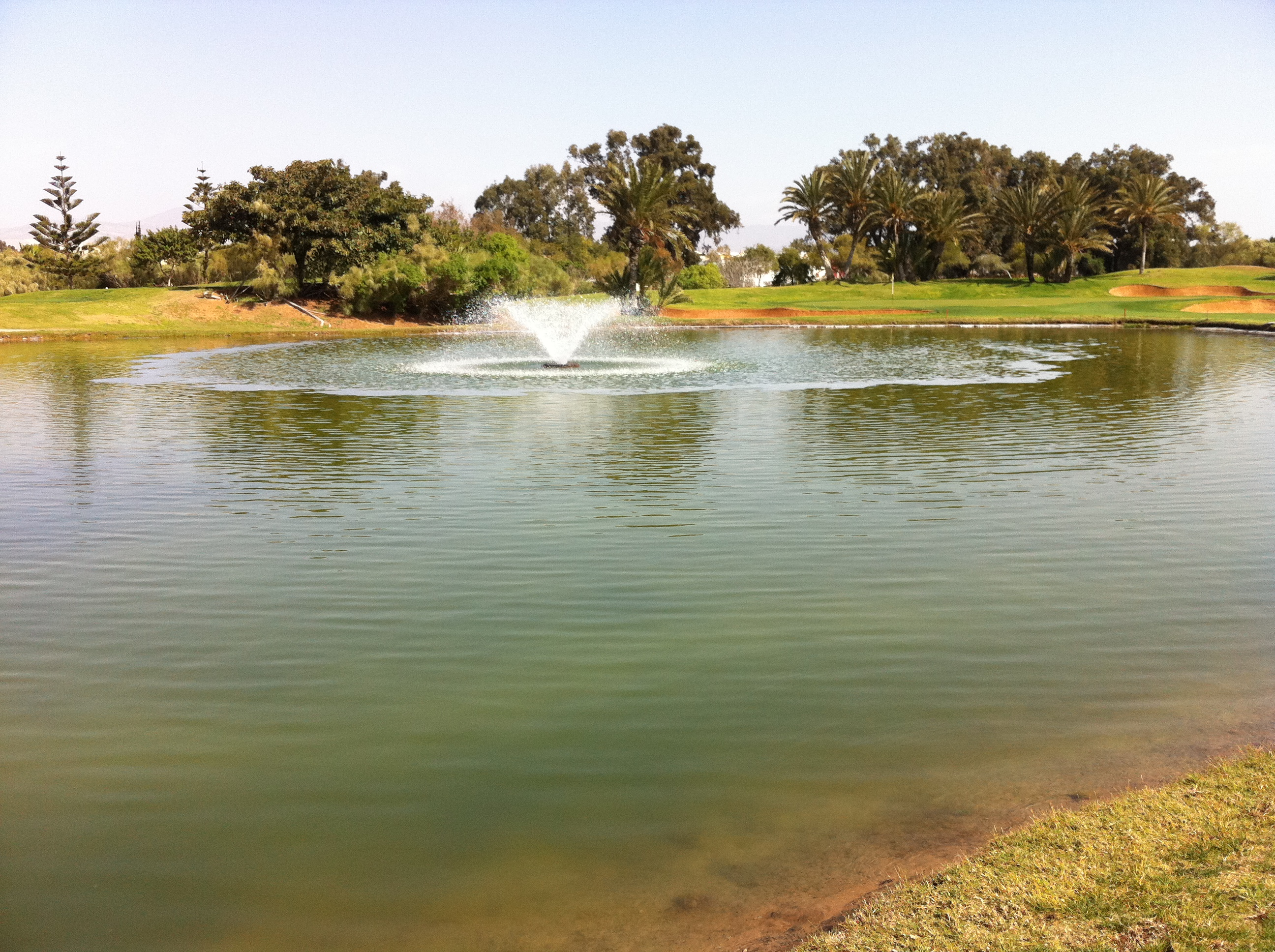 Golf course Du Soleil in Agadir, Morocco